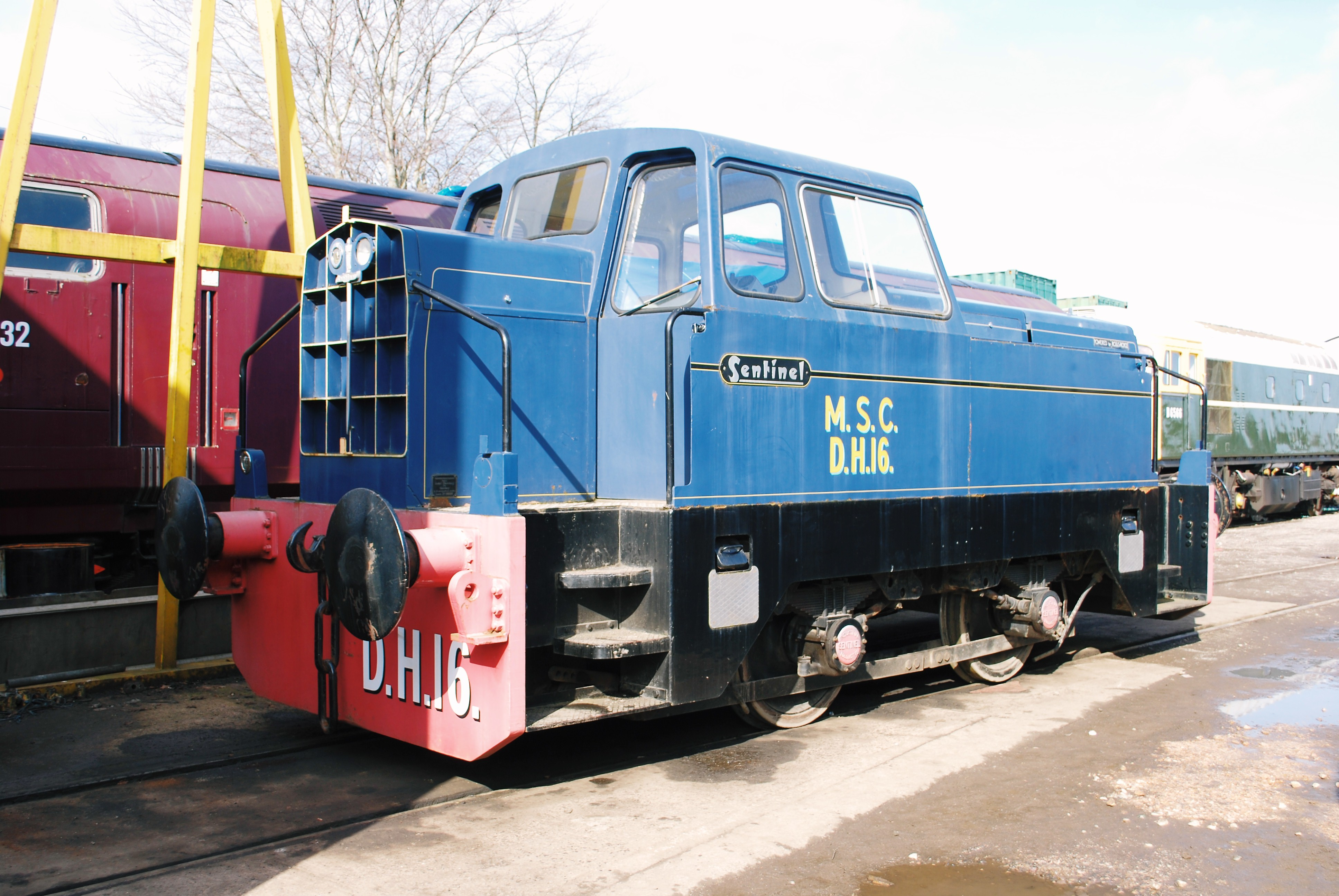 Preserved Rolls Royce/Sentinel 34t 0-4-0 diesel hydraulic No.10175 of 1964,with 255 hp Rolls Royce C6SFL engine; Manchester Ship Canal No.DH16 at Williton, West Somerset Railway 3/10.